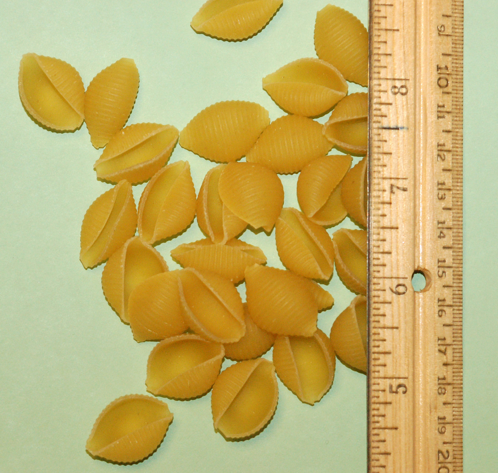 Pasta large shells (but not the very large stuffable ones) with rule.